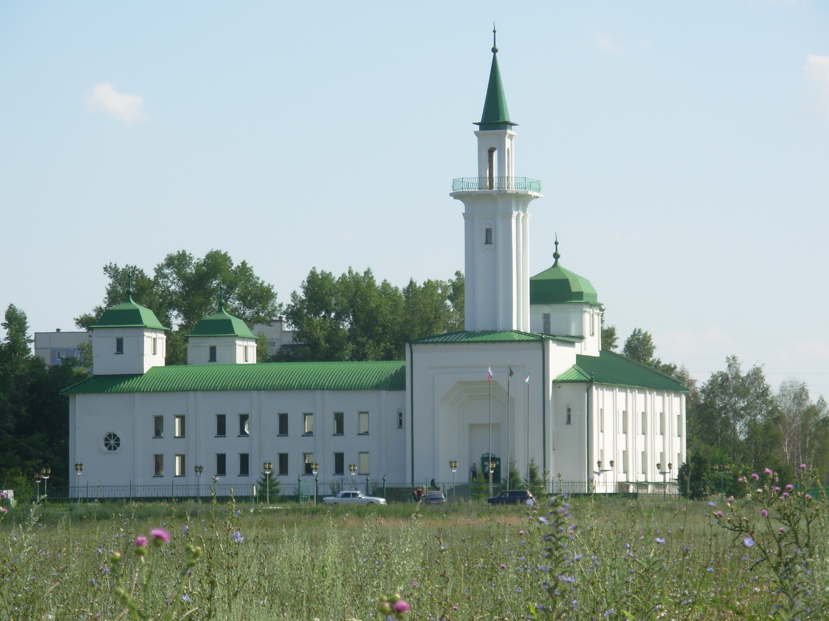 street